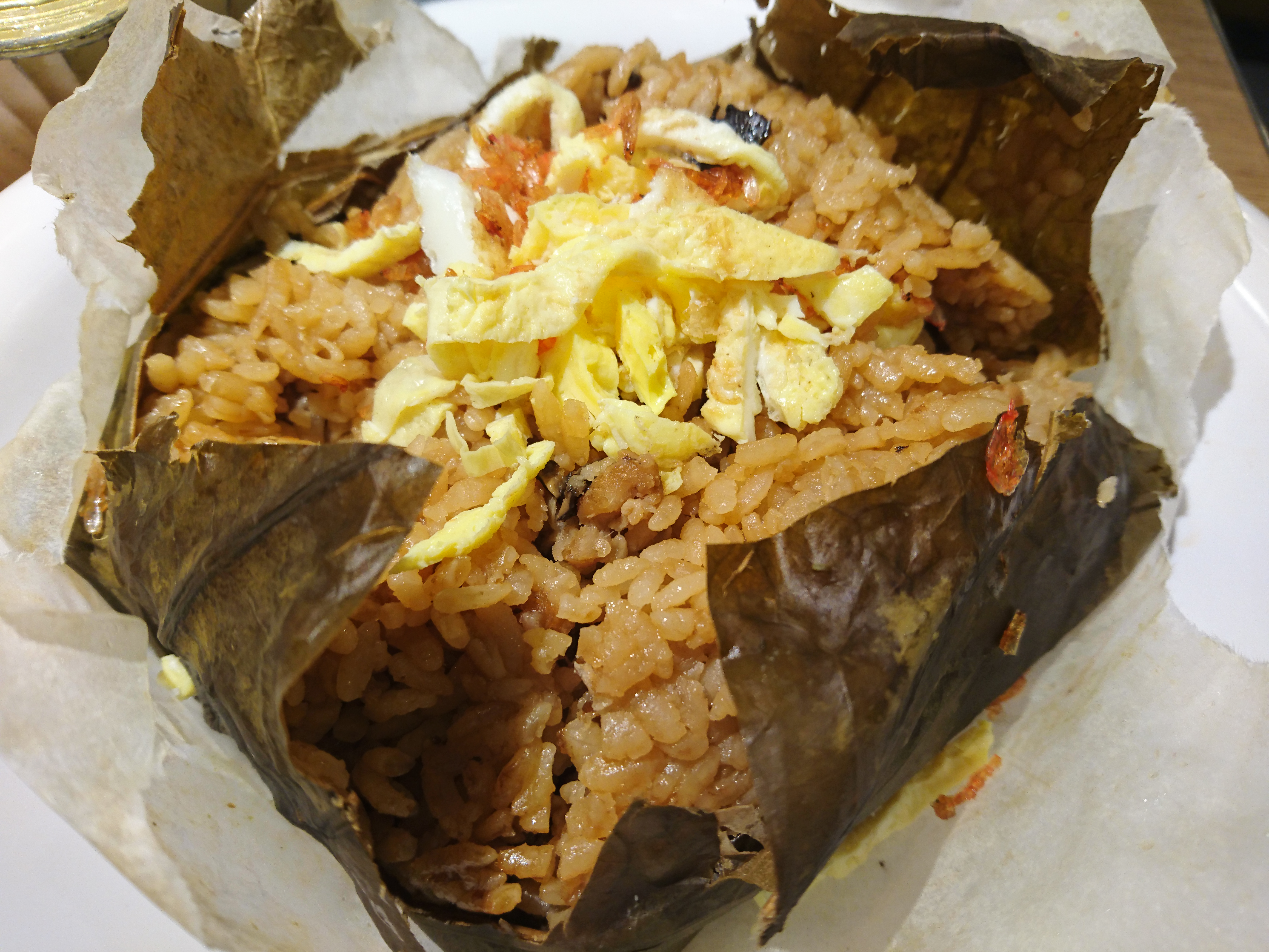 Lotus Leaf Rice